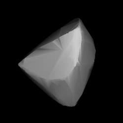 3D convex shape model of 1332 Marconia, computed using light curve inversion techniques. J. Hanuš, J. Ďurech, M. Brož, B. D. Warner (June 2011). "A study of asteroid pole-latitude distribution based on an extended set of shape models derived by the lightcurve inversion method". Astronomy and Astrophysics 530: A134. ISSN 0004-6361. arXiv